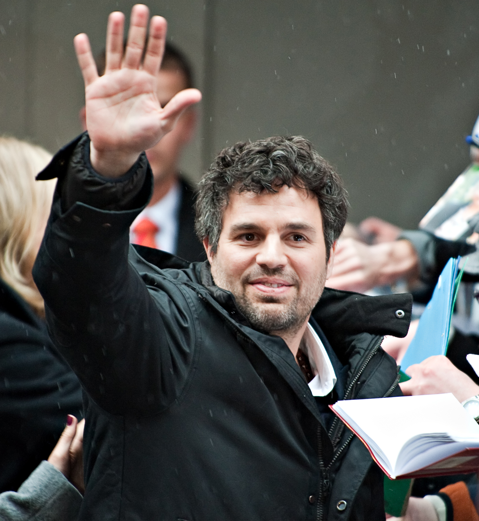 US American actor Mark Ruffalo leaving the press conference for the film "Shutter Island"